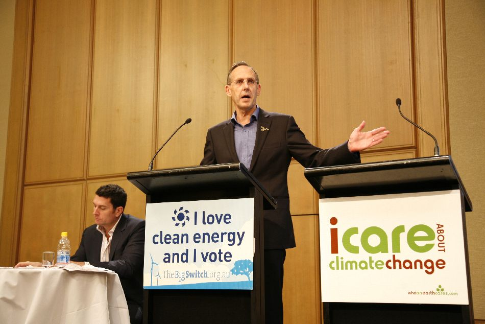 Bob lays out the Green's climate change policiesBob lays out the Green's climate change policies